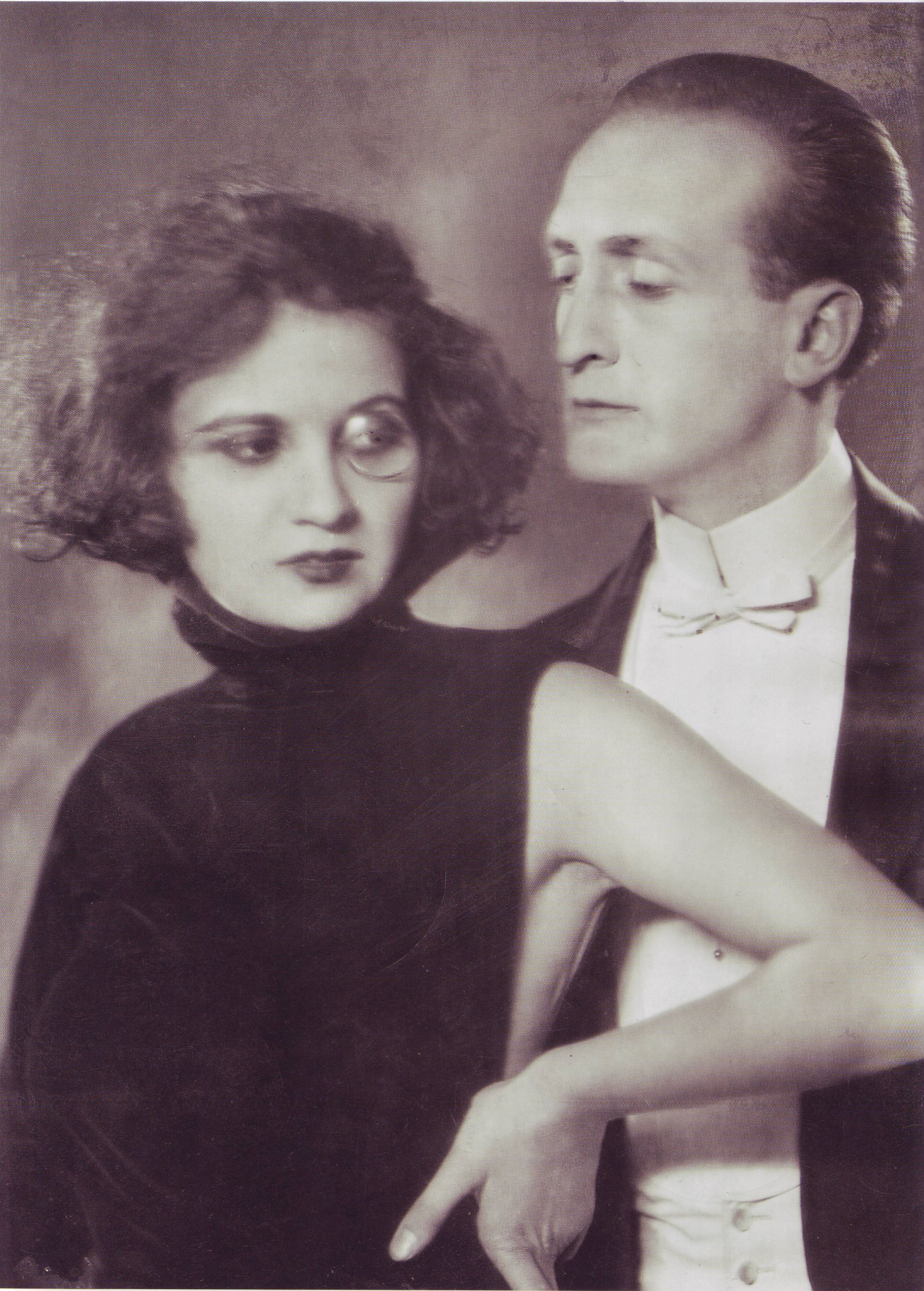 Hans Albers with woman (Marcella Albani?), 1924